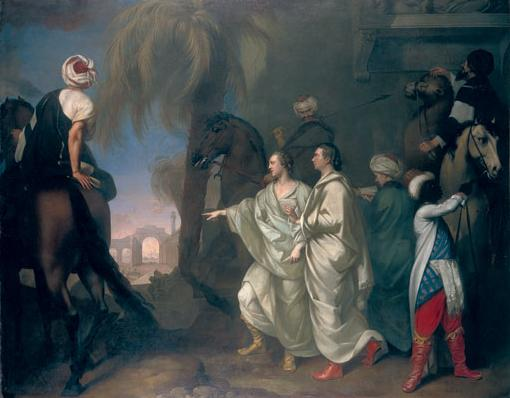 James Dawkins and Robert Wood Discovering the Ruins of Palmyra, National Gallery of Scotland